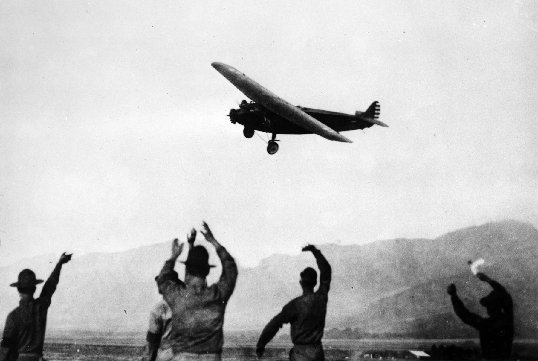 Atlantic-Fokker C-2 Bird of Paradise arrival in Hawaii. (U.S. Air Force photo)